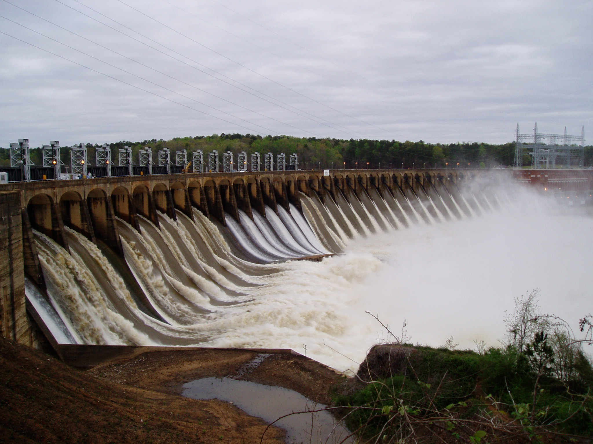 Coosa River At Jordan Dam In Full Flood